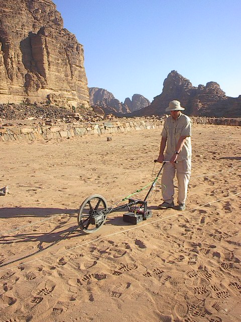 Ground penetrating radar (GPR) survey at the Nabataeo-Roman site of Wadi Ramm, Jordan. The wheel trailing behind the transmitter/receiver antennas is an odometer that controls data collection.